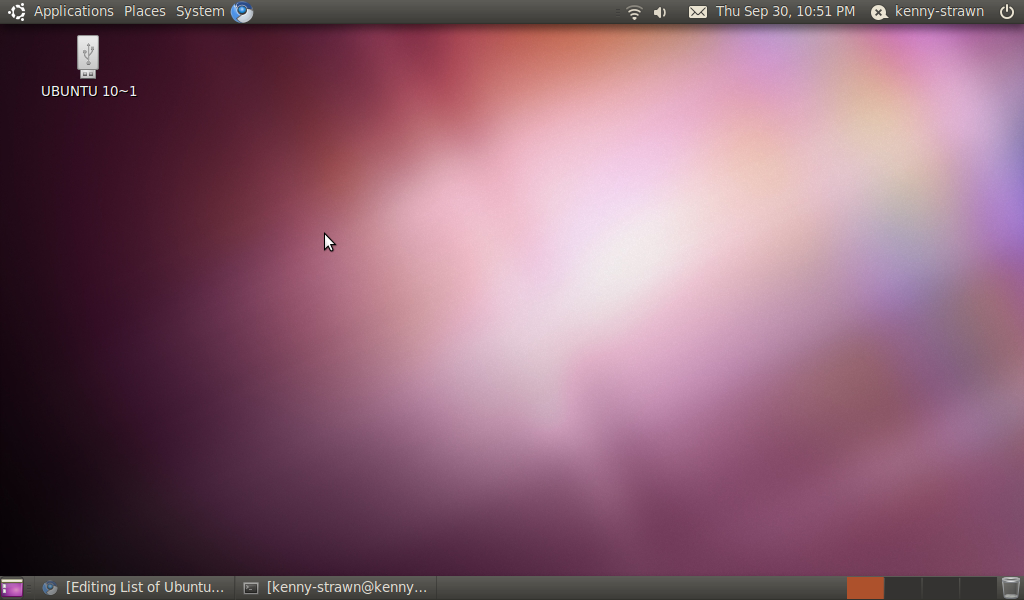 "An screenshot of Ubuntu 10.10 "Maverick Meerkat" that I'm contributing to the List of Ubuntu releases article." Kenny Strawn